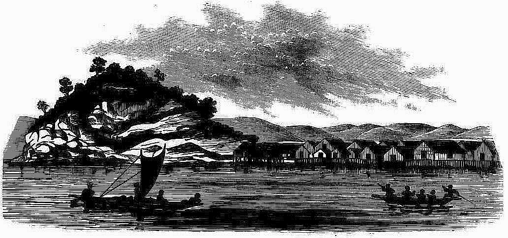 Port Moresby from the 1878 voyage of the Voura